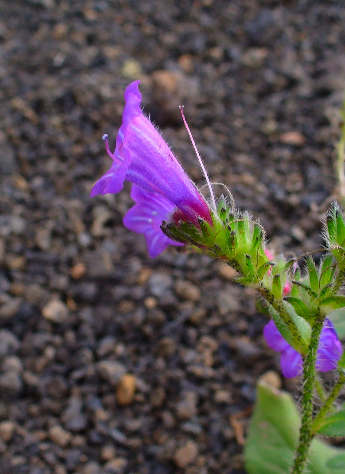 Lanzarote Bugloss, flower; Near Mirador del Rio, Lanzarote, Canary Islands, Spain.